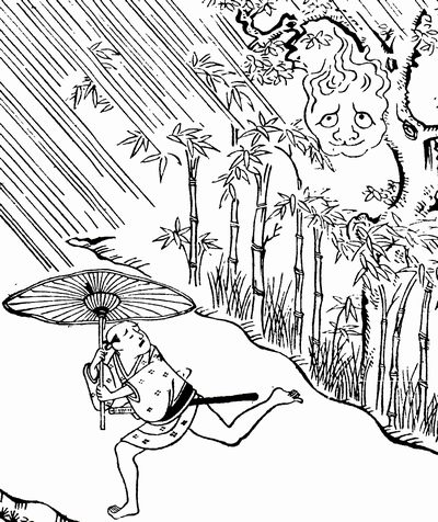 Tsurube-oroshi (釣瓶下し, a monster that drops out of the tops of trees) from the Kokon Hyaku-monogatari Hyōban (古今百物語評判)